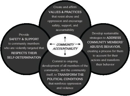 Community Accountability model